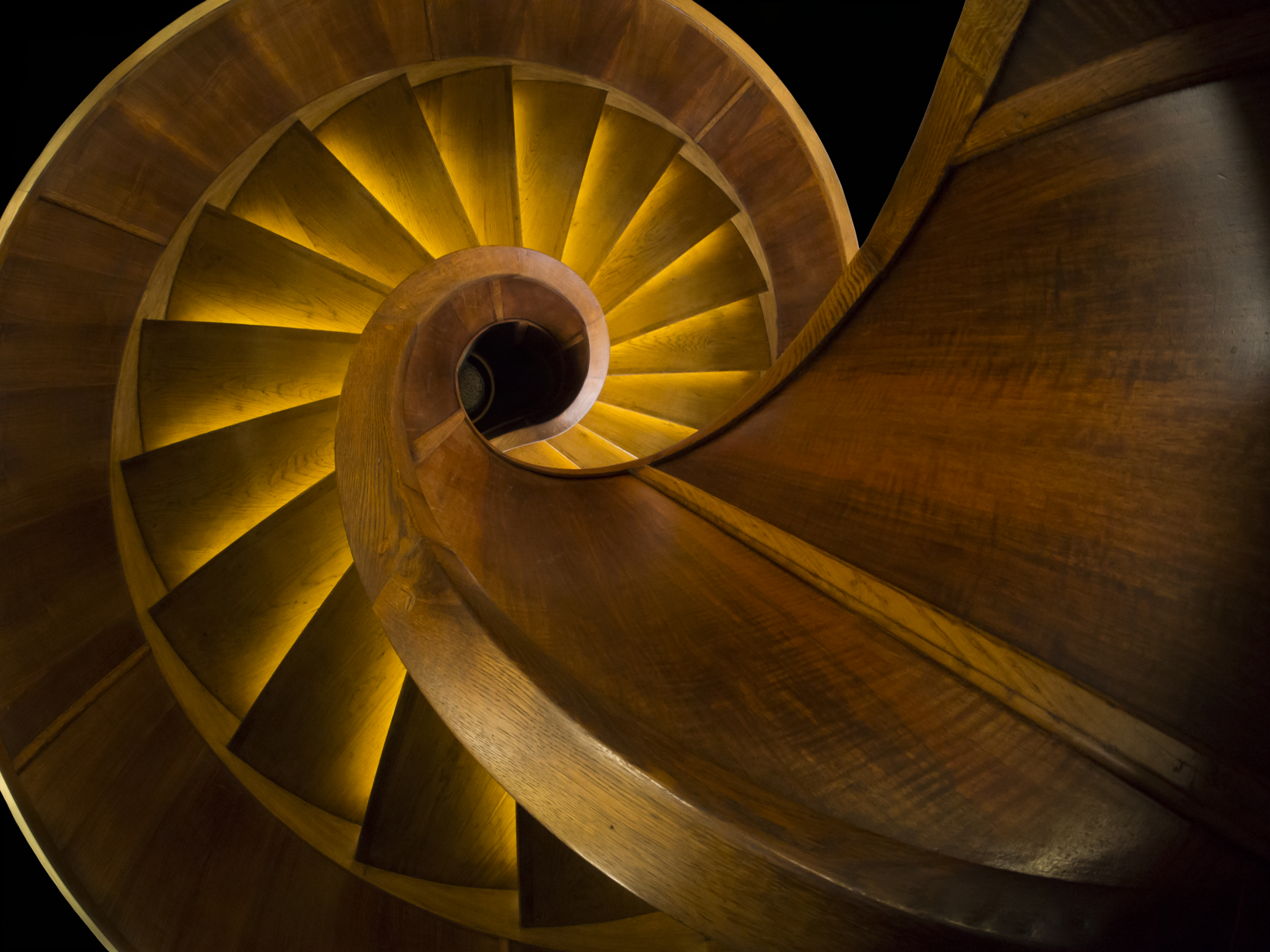 Wooden spiral stairs leading to VIP class coffee on Nebotičnik building, Ljubljana, Slovenia. This photograph was taken with a Olympus E-P5.